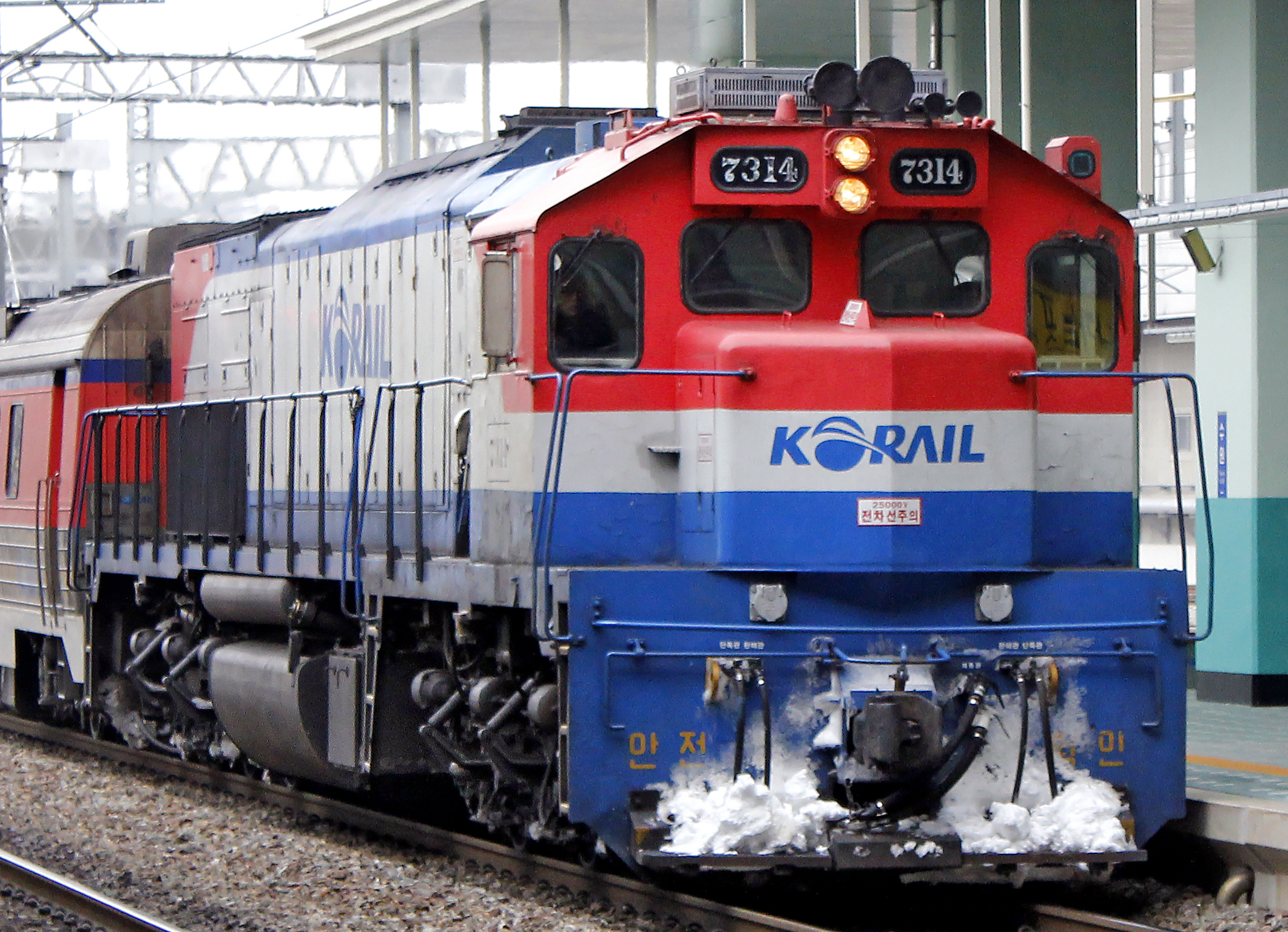 Korail Class 7300 Locomotive